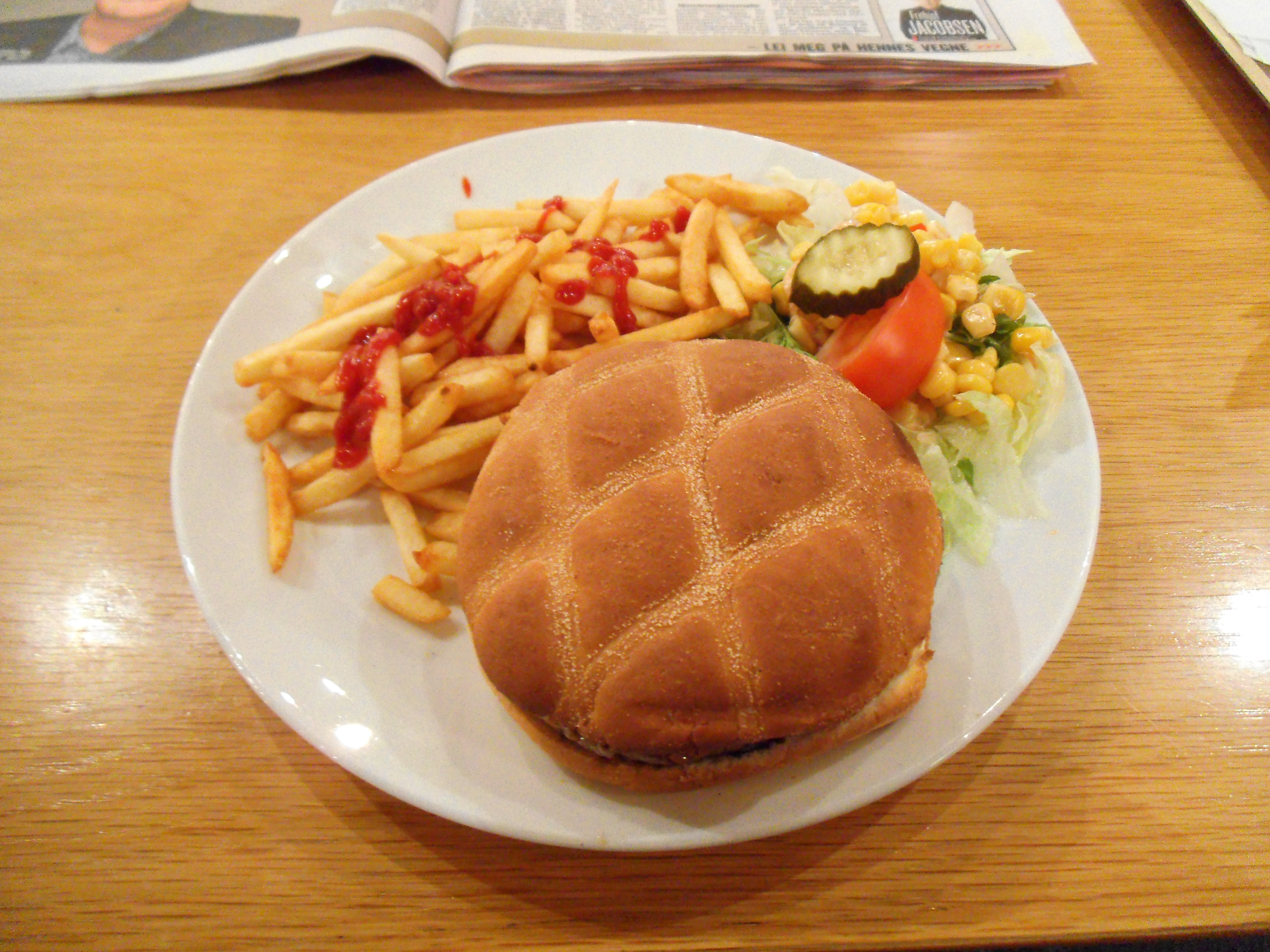 Hamburgertallerken. A hamburger on a plate with French fries, pickles, tomato, maize and dressing.